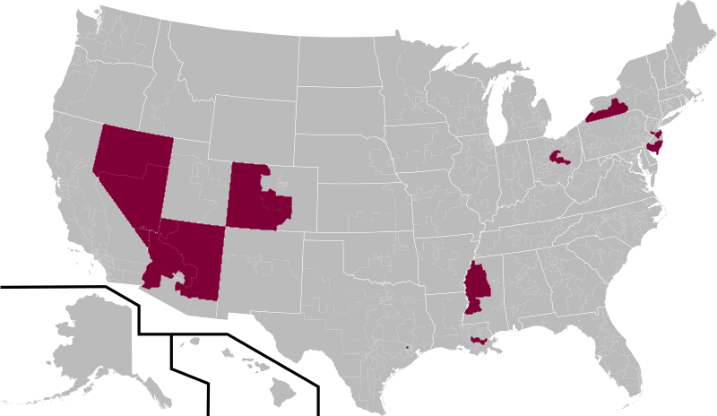 A district map of the Congressional Gaming Caucus.